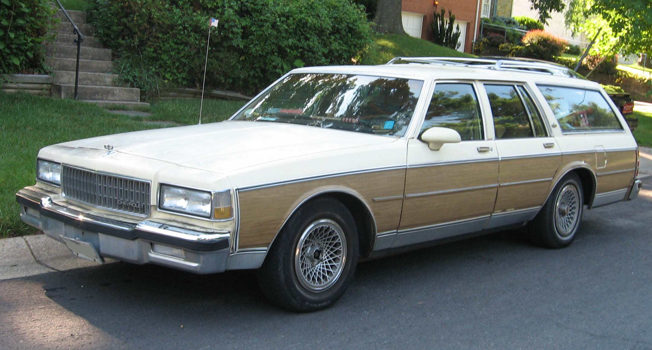 1987-1990 Chevrolet Caprice photographed in USA.